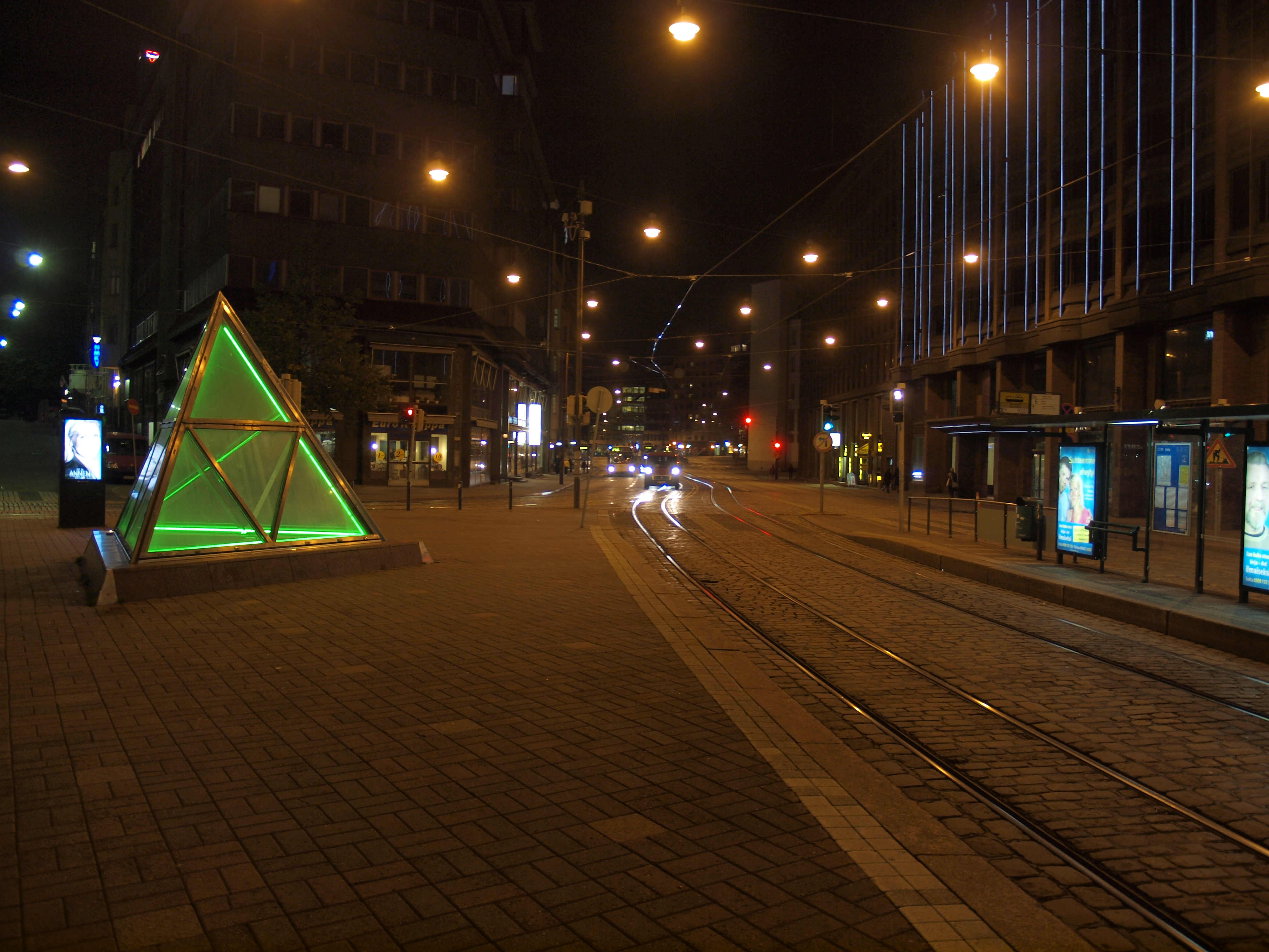 Kaisaniemenkatu in Kaisaniemi, Helsinki, Finland, late in the evening.